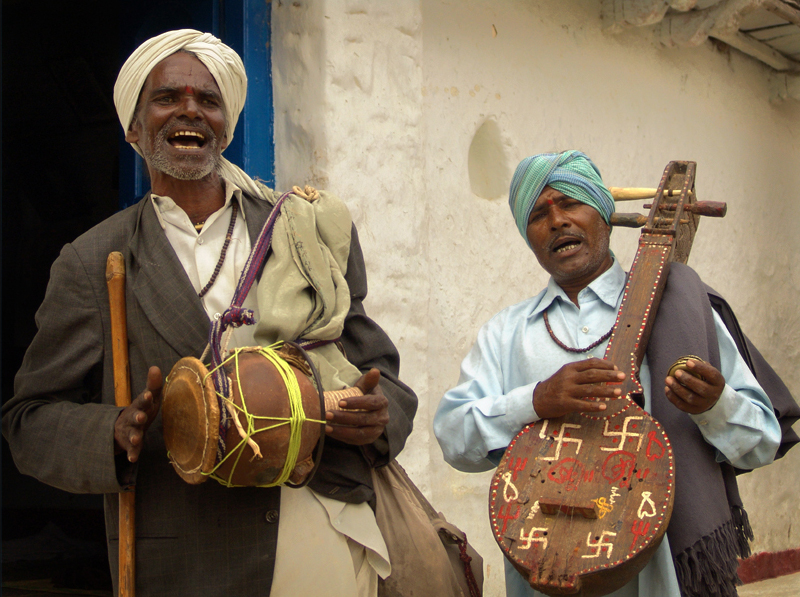 View On Black ..In India, Swastka sign has nothing to do with Nazism!